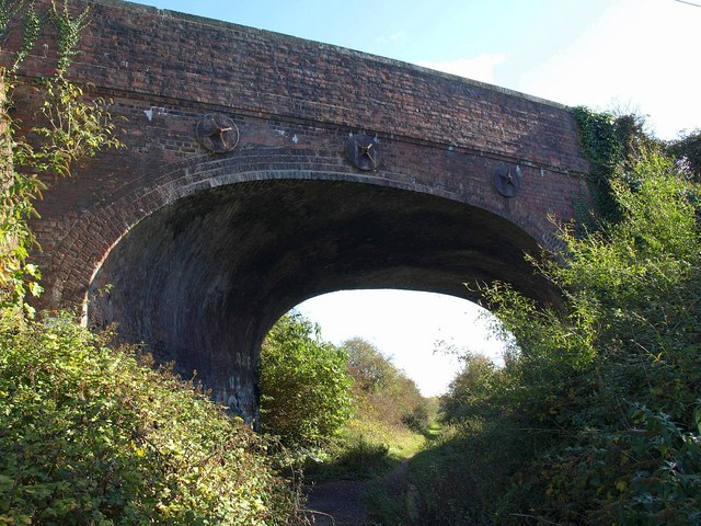 Bridge across former railway line, Ringwood. This is the bridge shown in 1426931 seen from the other side, east of the former station.